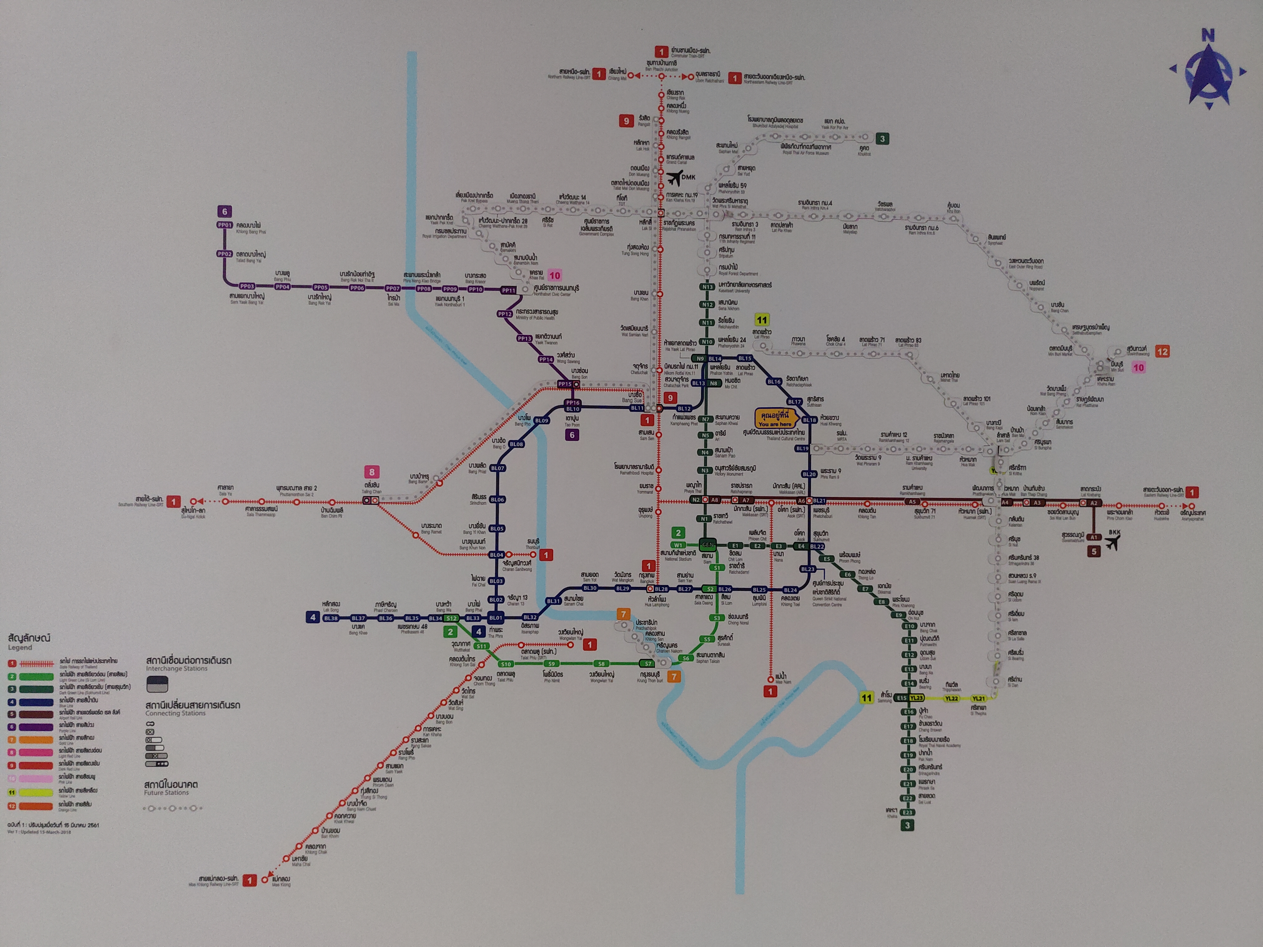 Integrated Metro Train System in Bangkok as of 23rd December 2019